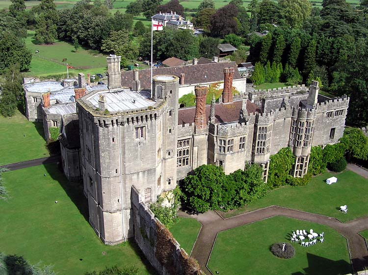 The Castle seen from the top of St Mary’s Church tower, Thornbury, near Bristol, England Taken by Adrian Pingstone in September 2004 and released to the public domain.